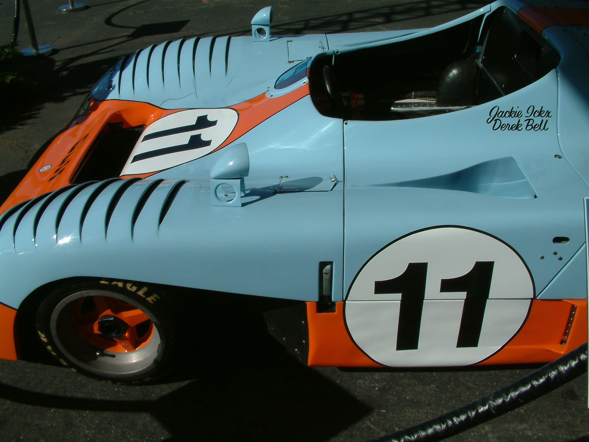 en:1975 Gulf Research Racing Company GR8, driven by Jacky Ickx and Derek Bell to victory at 1975 24 Hours of Le Mans La GR8 della Gulf Research Racing Company (1975), portata da Jacky Ickx e Derek Bell alla vittoria della 24 Ore Le Mans 1975